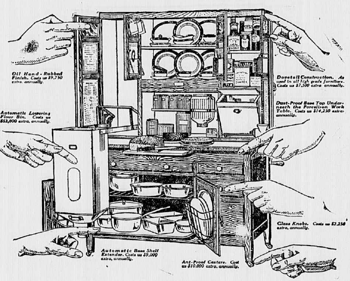 This is a portion of a 1921 advertisement for Sellers Kitchen Cabinets that shows some of the features of the product.